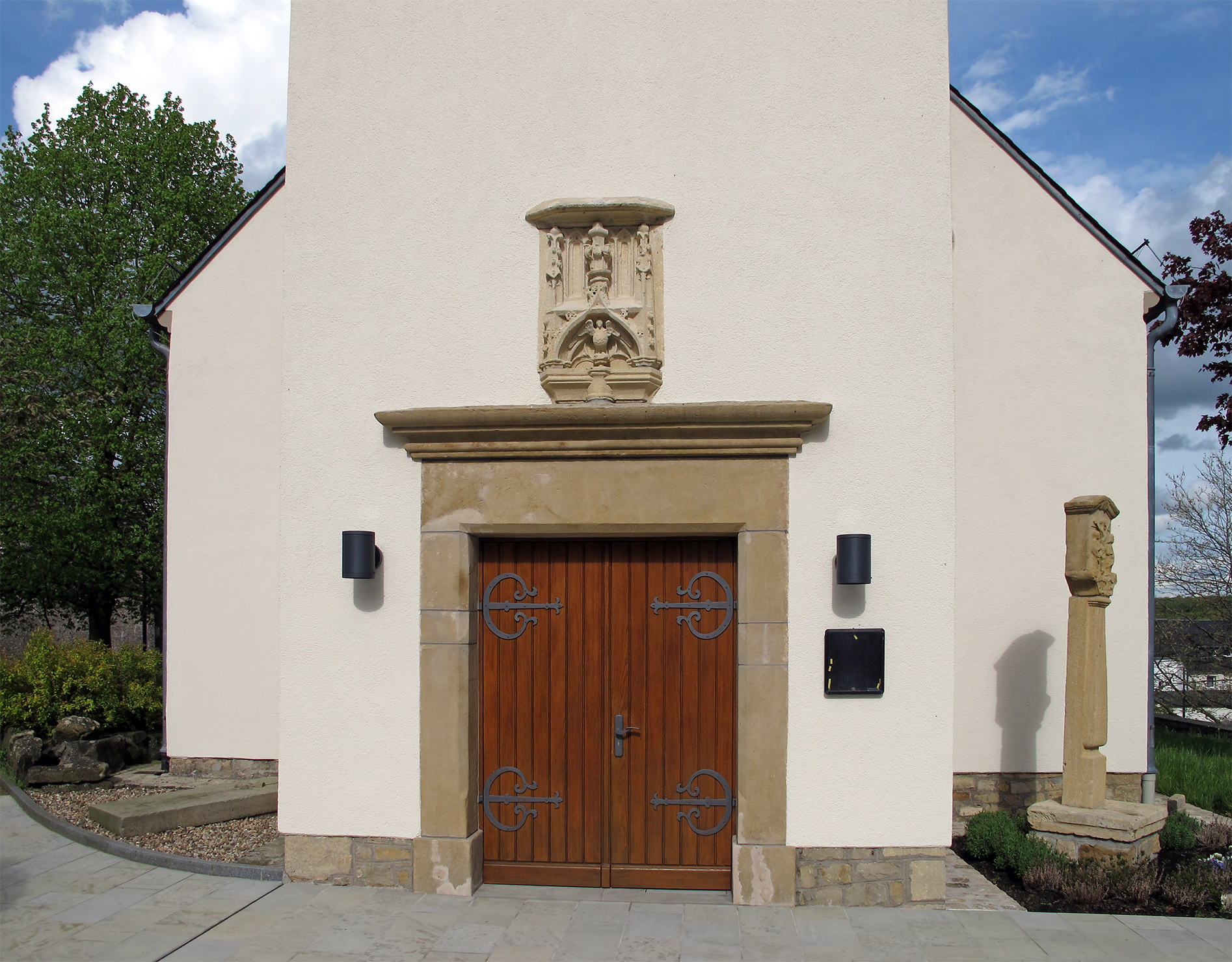 Church of Holzem